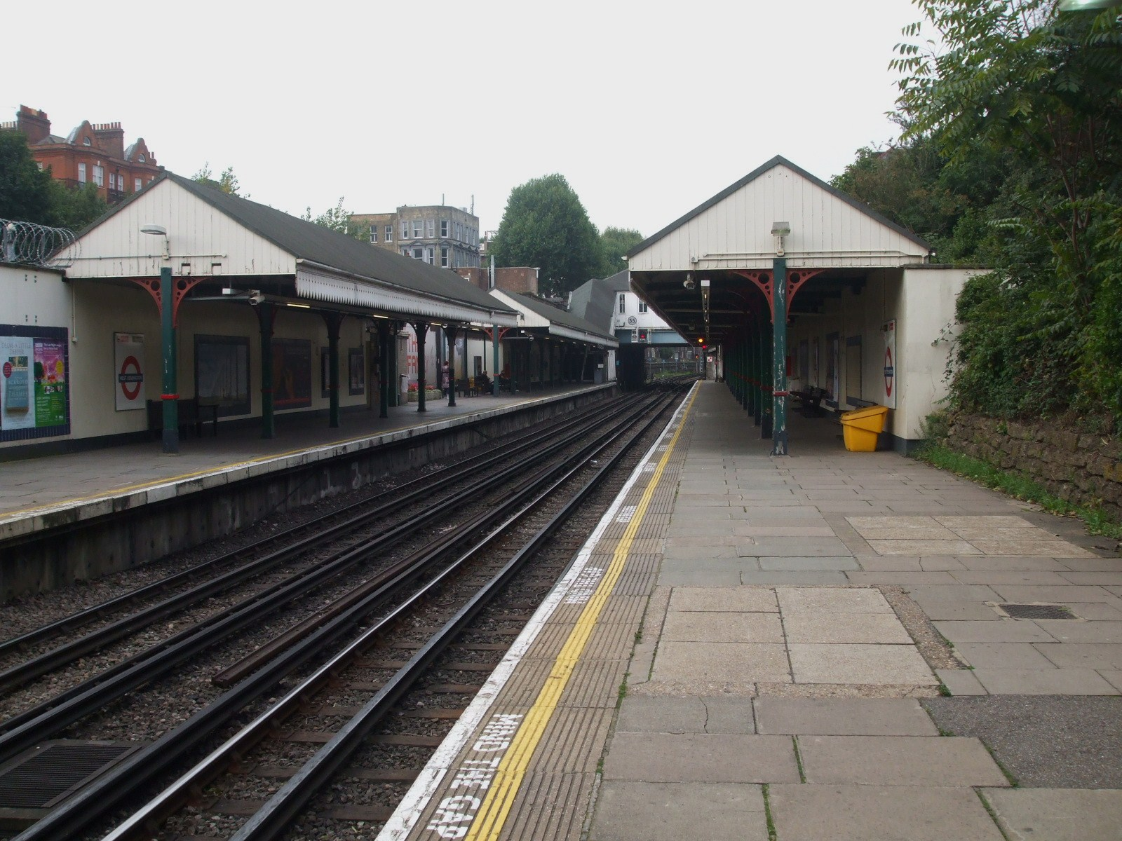 West Kensington tube station looking west